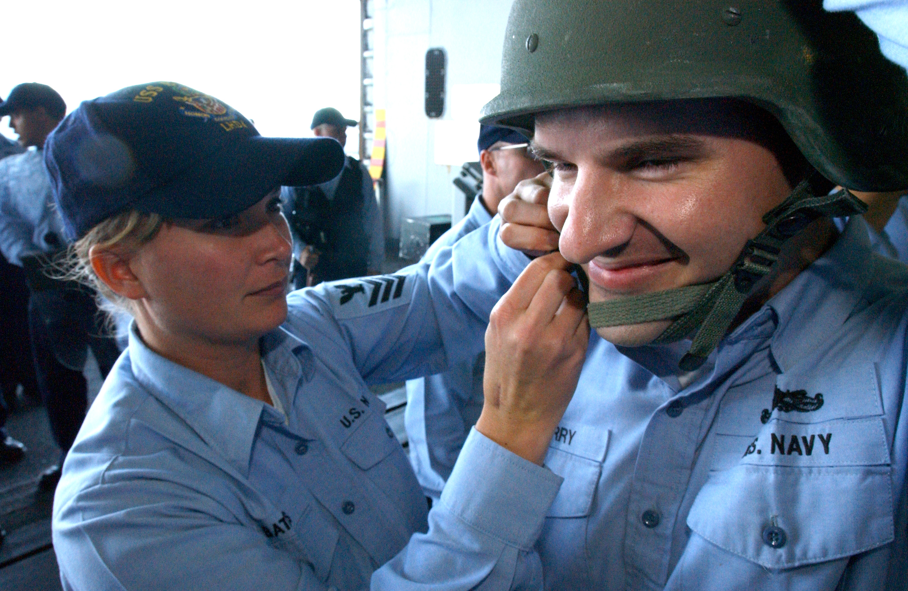 San Diego (Aug. 8, 2006) - Information Systems Technician 1st Class Amber Bates tightens Fire Controlman 1st Class David Berry's chin strap during an anti-terrorism force protection drill. Bates and Berry are assigned to the amphibious assault ship USS Boxer (LHD 4), where they participated in the drill as part of the ship's certification prior to its Western Pacific deployment. U.S. Navy photo by Mass Communication Specialist 1st Class S. H. Vanderwerff (RELEASED)